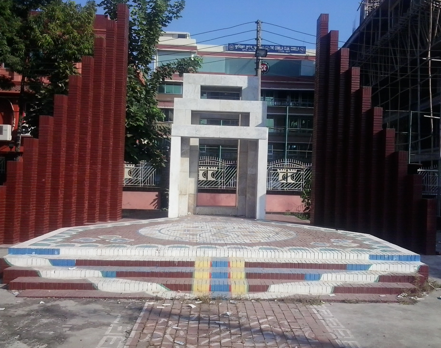 Shahid minar, comilla